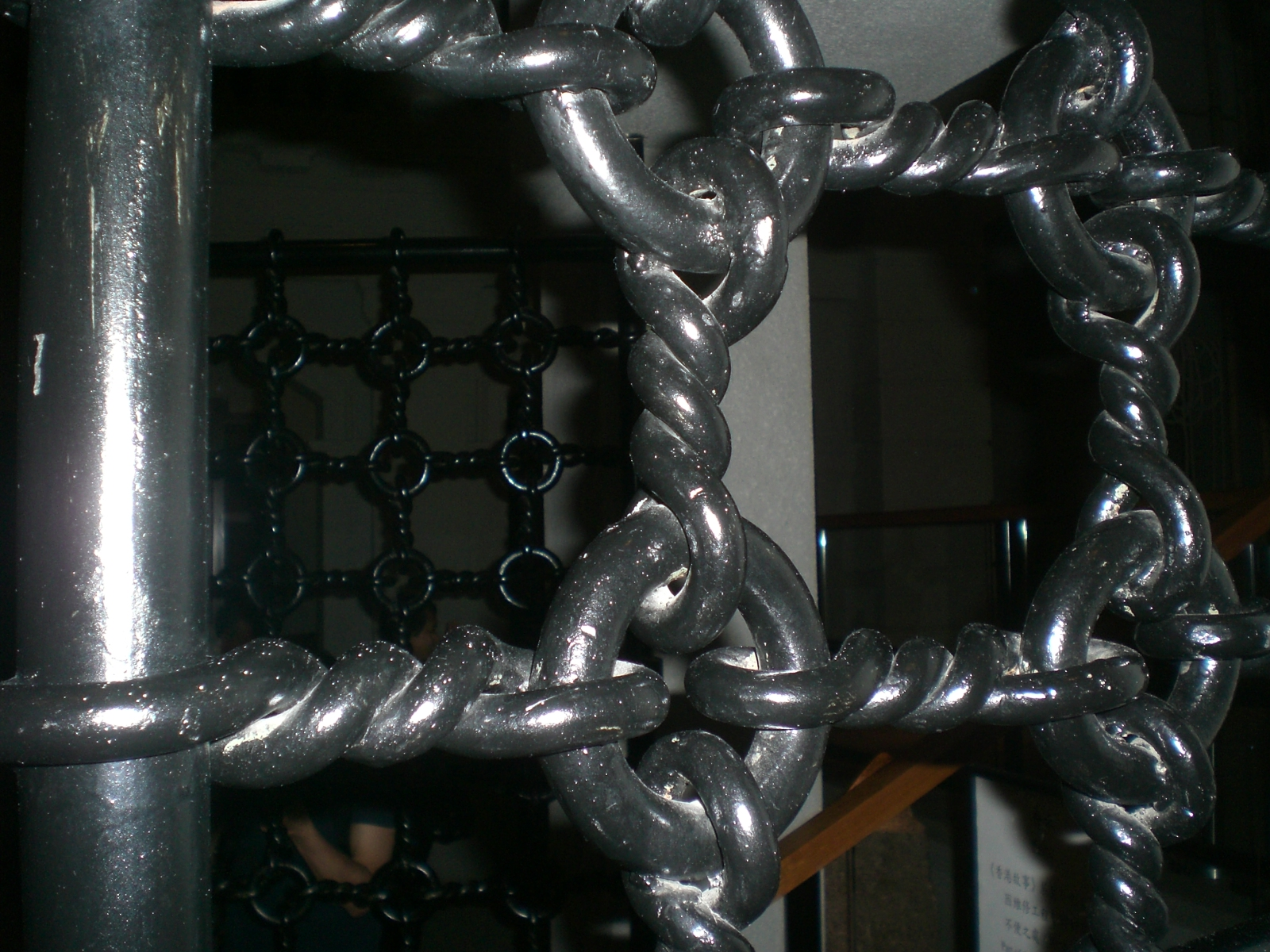 香港歷史博物館, Hong Kong Museum of History, 吉慶圍鐵門事件